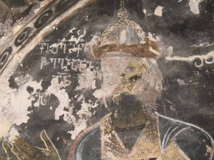 A 11th-century fresco of the Svan nobleman Mikael Chegiani from the Adishi Church of Our Lord, Georgia.